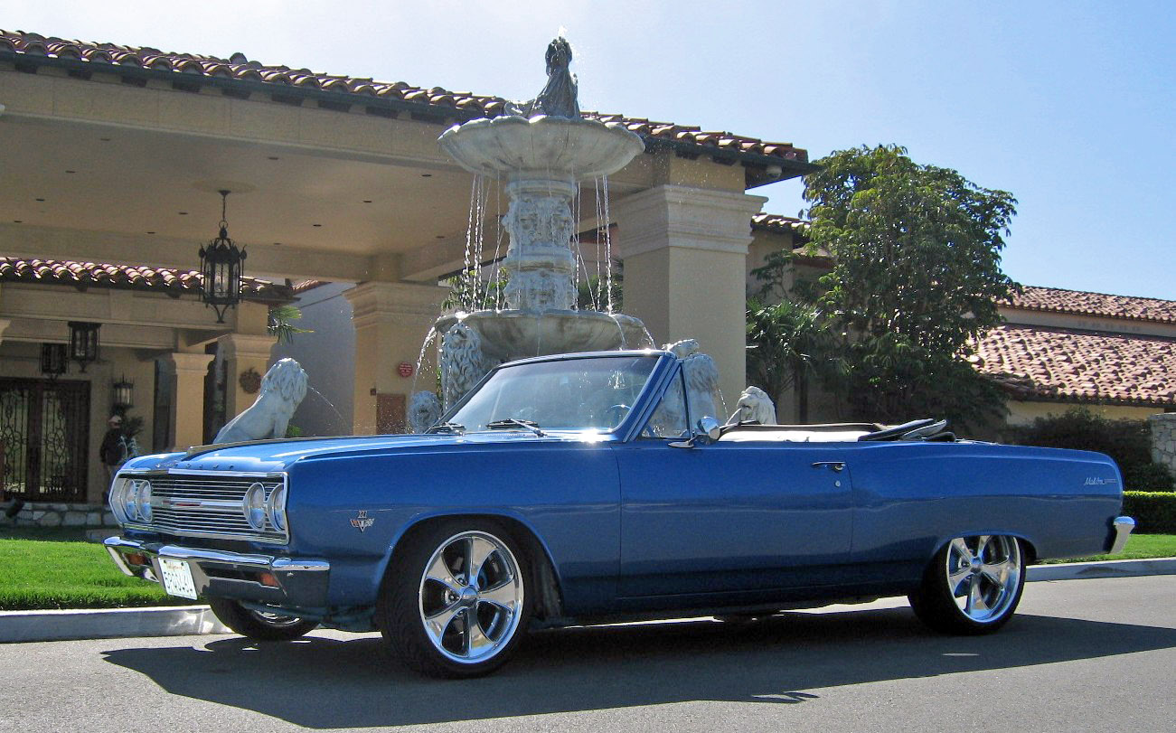 1965 Convertible Malibu Chevelle